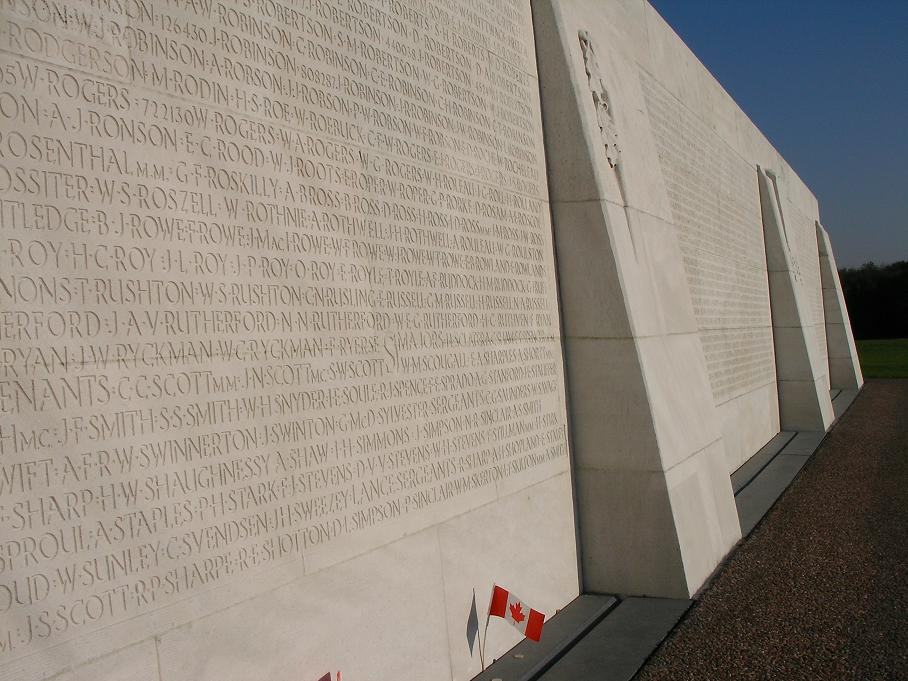 Names engraved on the Canadian National Vimy Memorial in France